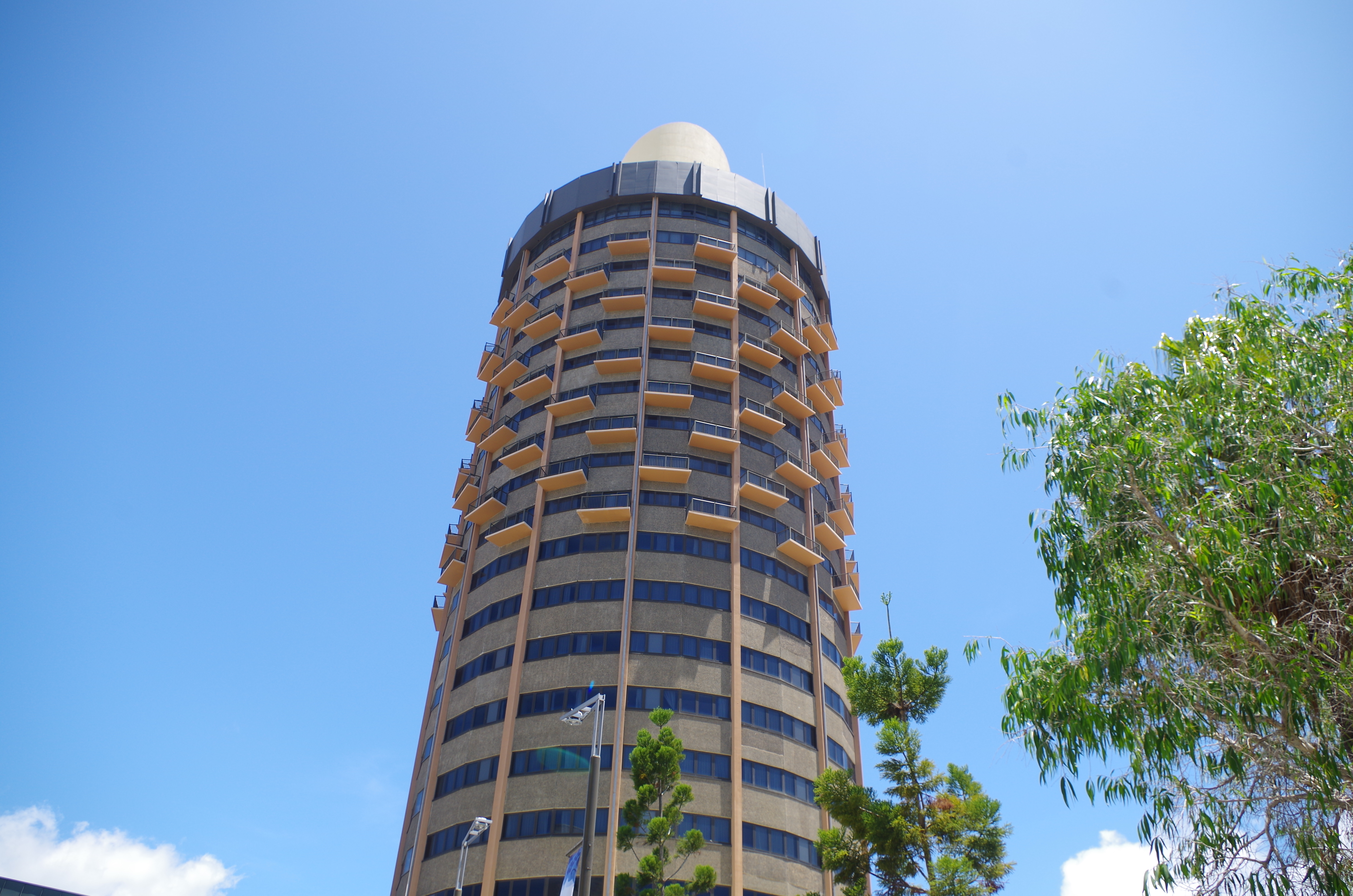 This is an image of the Hotel Grand Chancellor in Townsville, Australia, currently the tallest in the city pictured in February of 2020.